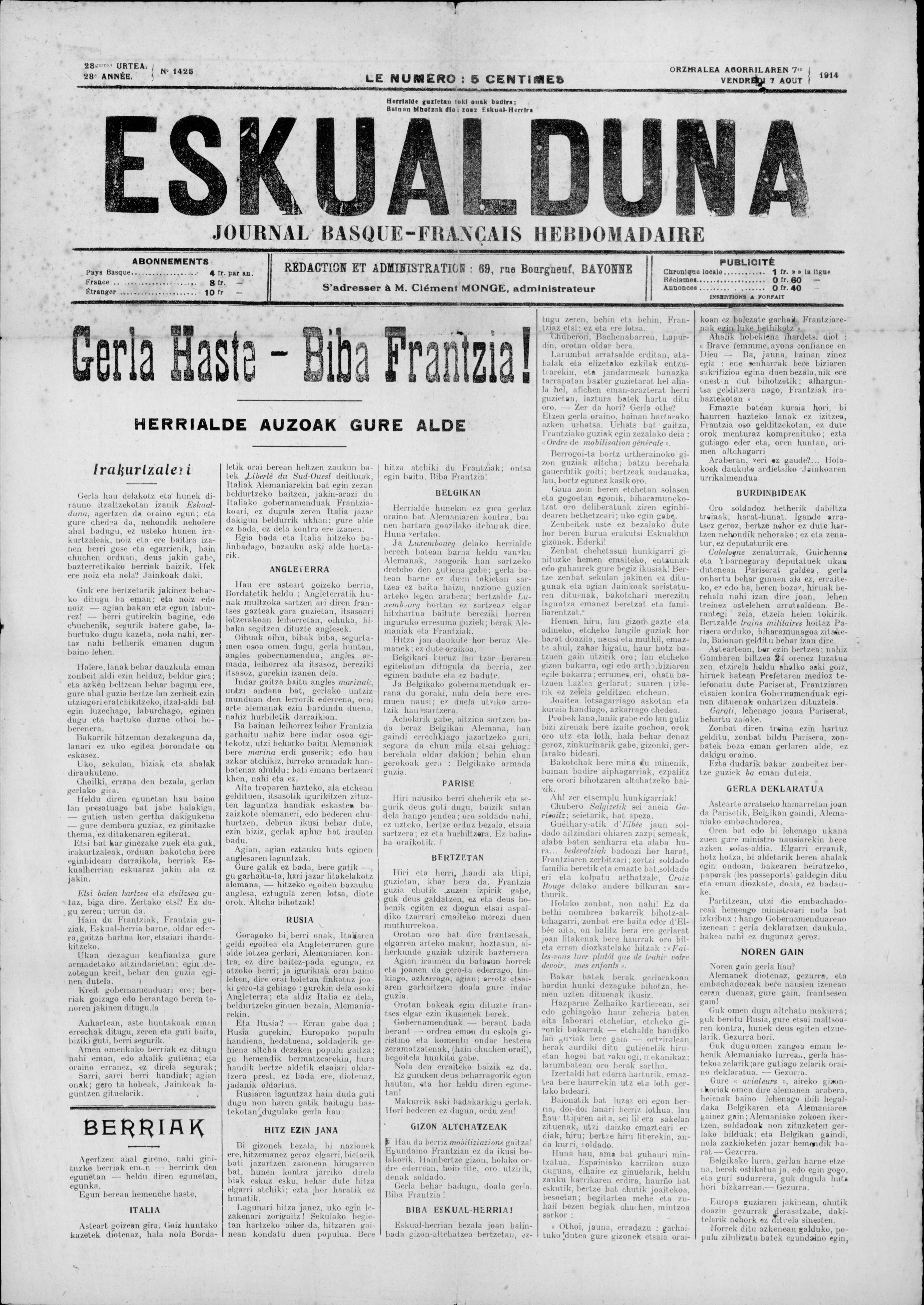 Number 1425 of the Basque-language weekly Eskualduna, published on 7 August 1914. Euskalduna was first published in 1887, and was closed down in 1944.